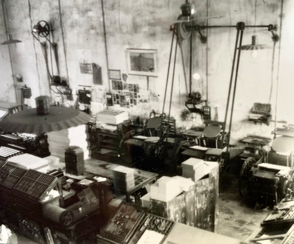 Aspecte de la Impremta Sallent al voltant de l'any 1925.